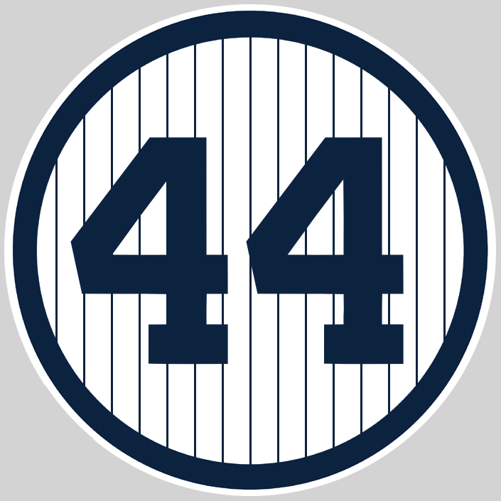 Image represents the current version of Reggie Jackson's No. 44 seen in Monument Park in Yankee Stadium